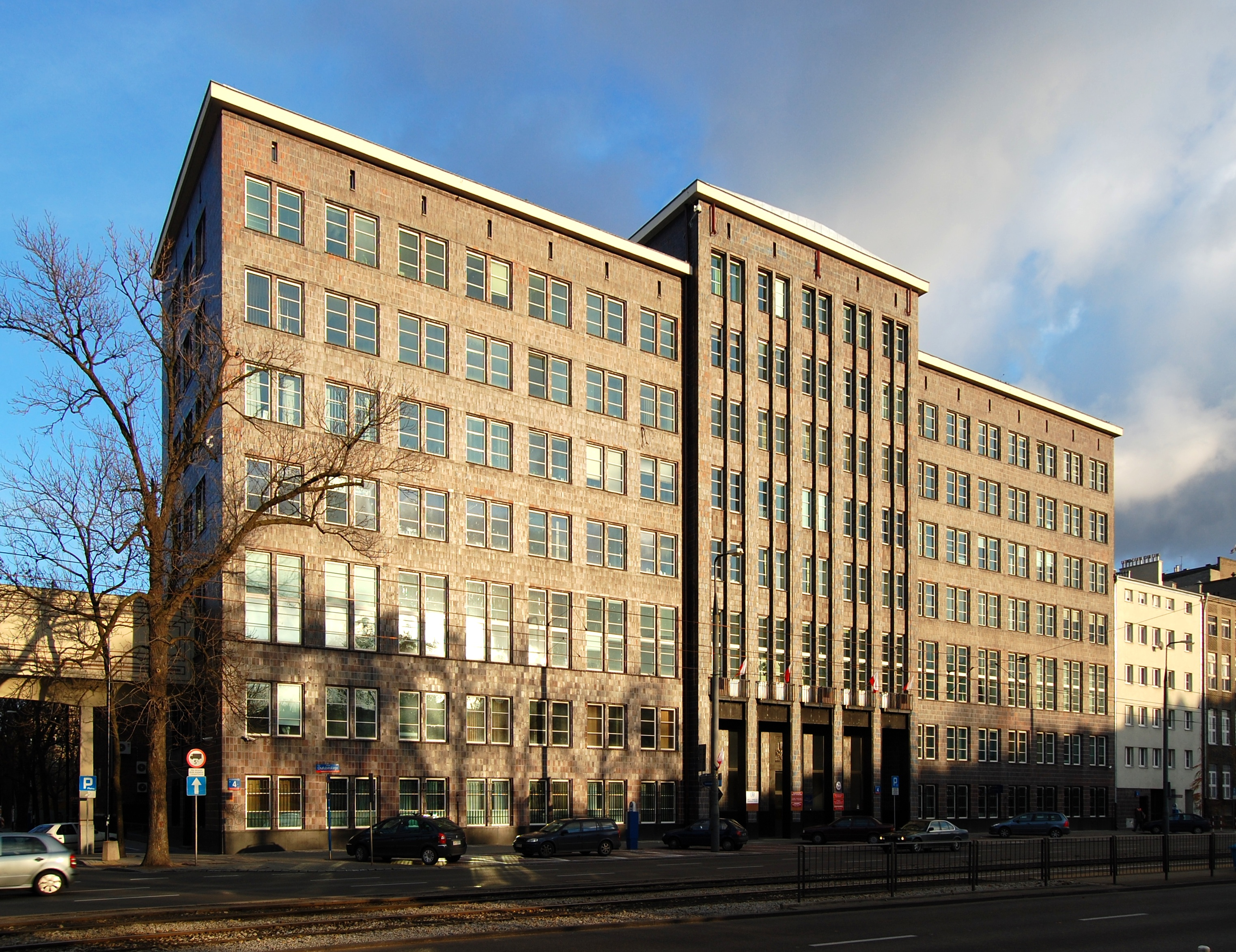 Transport Ministry building in Warsaw, Poland